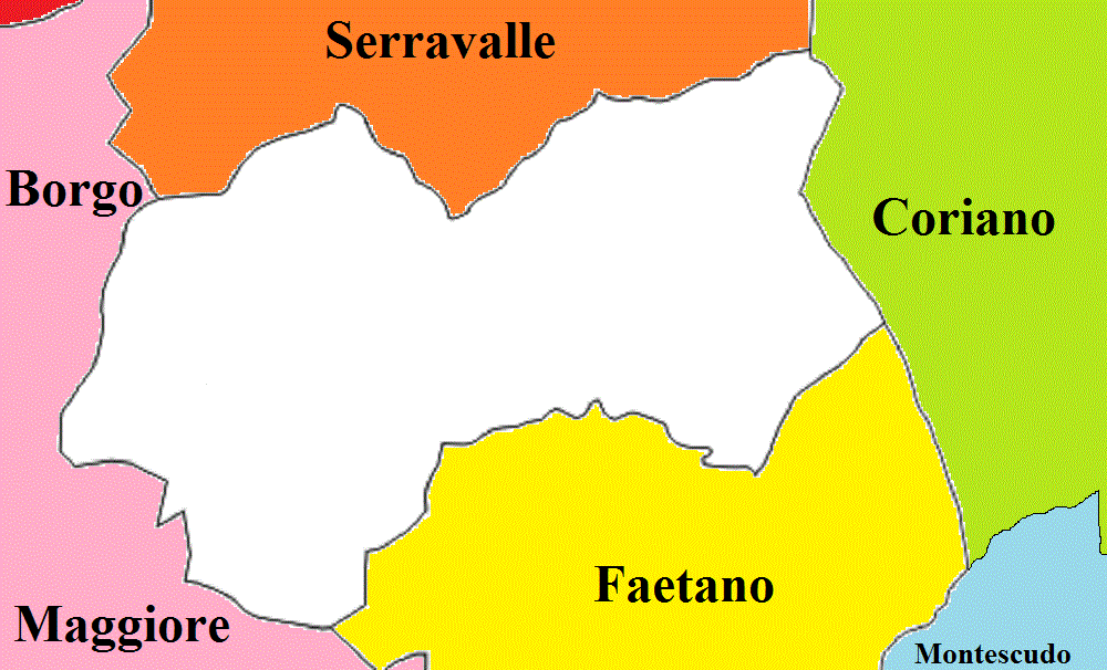 Map of Domagnano (San Marino)